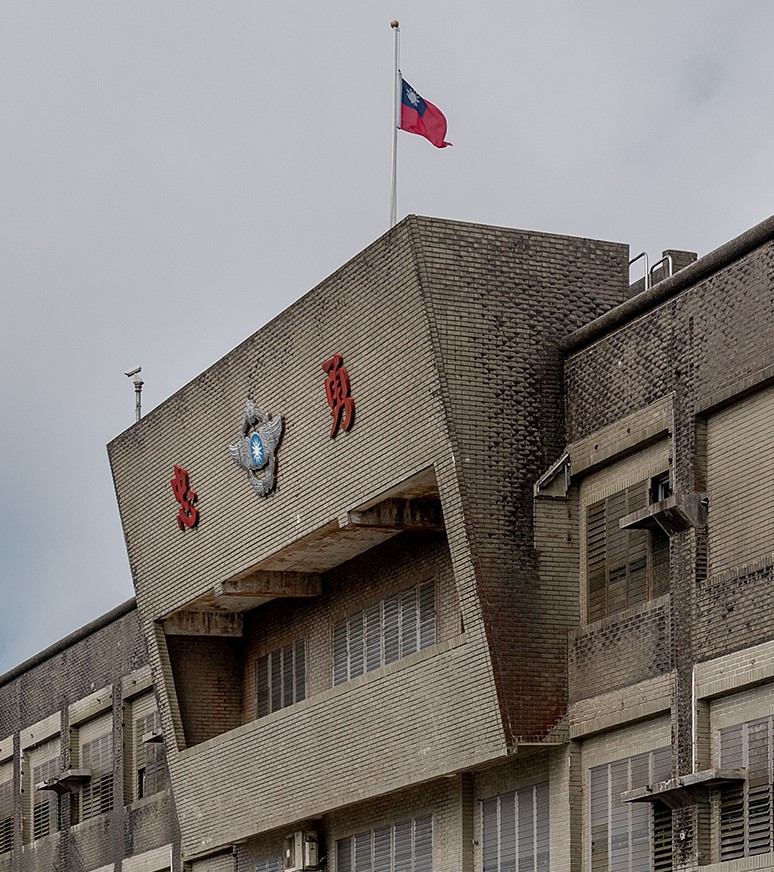 Official Photo by Makoto Lin / Office of the President